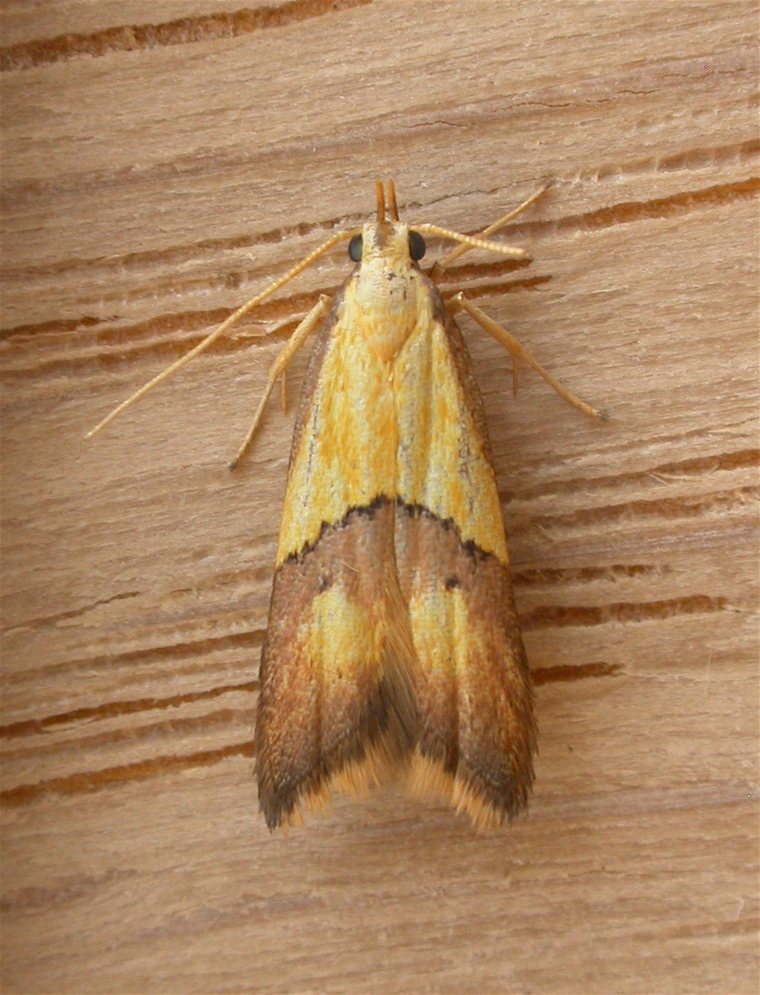 Crocanthes glycina (Meyrick, 1904), to MV light, Aranda, ACT, 30/31 January 2009